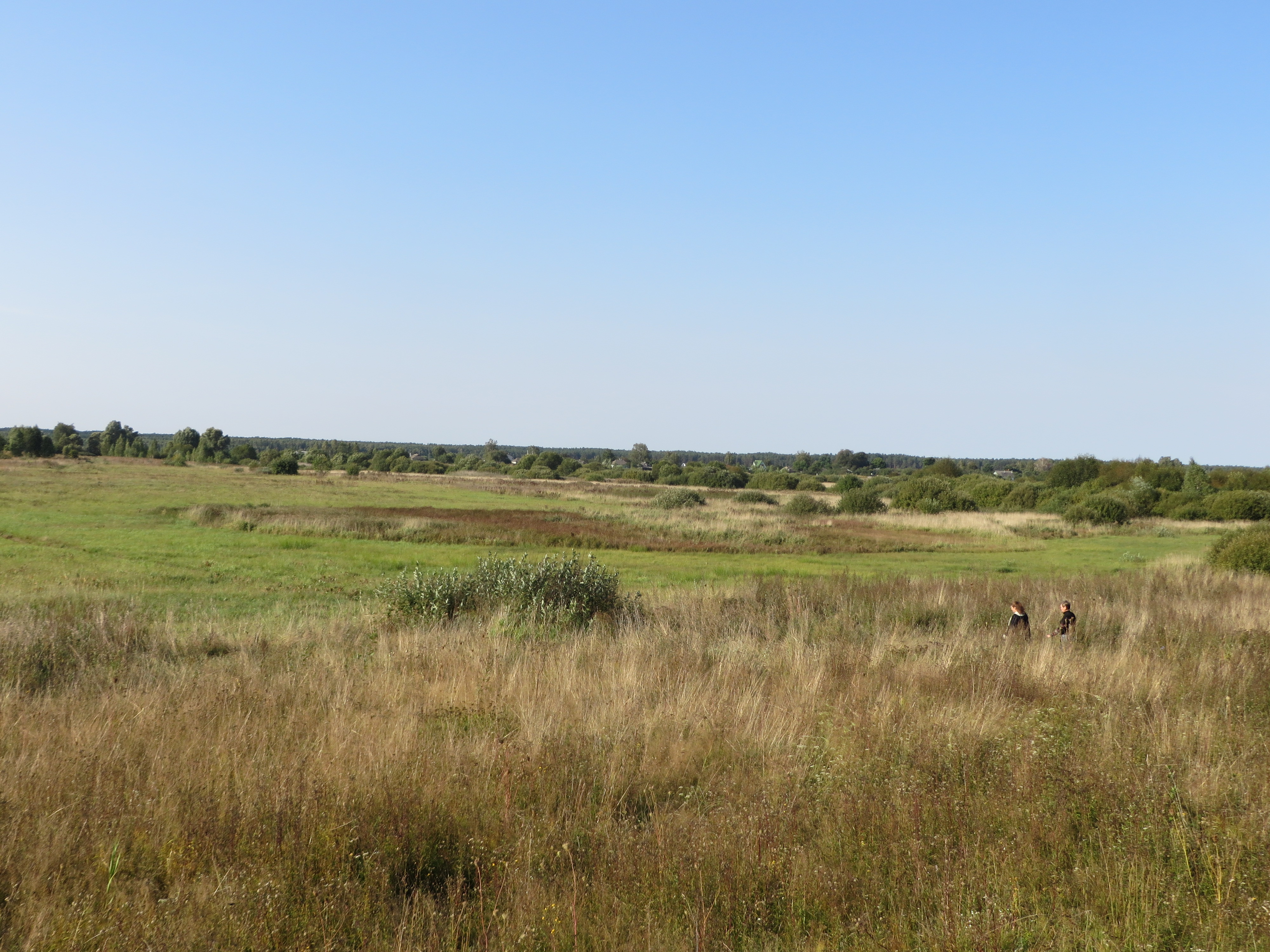 v. Maliyky, Chernihiv Raion, Chernihiv Oblast, Ukraine